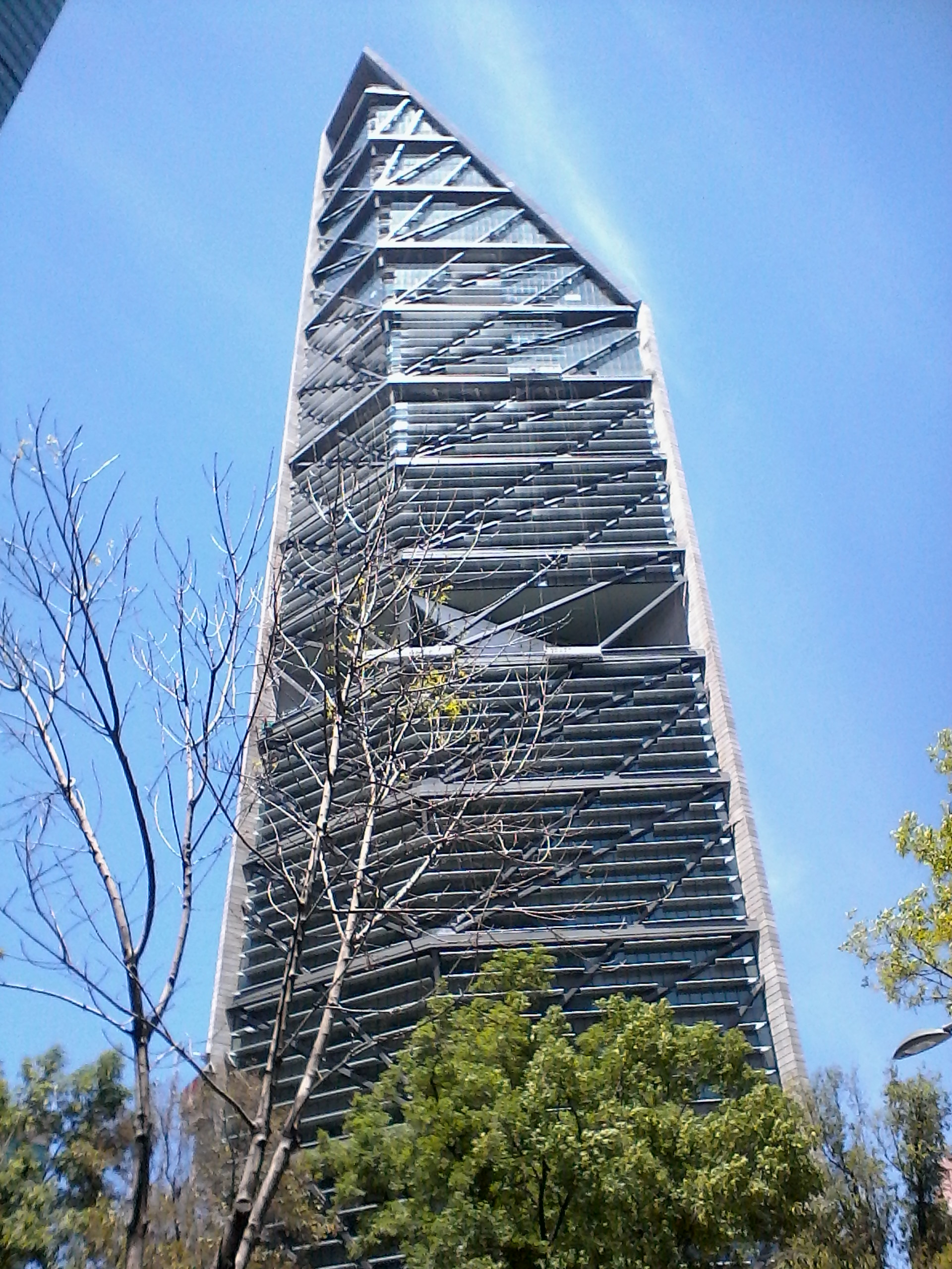 Torre Reforma 2016